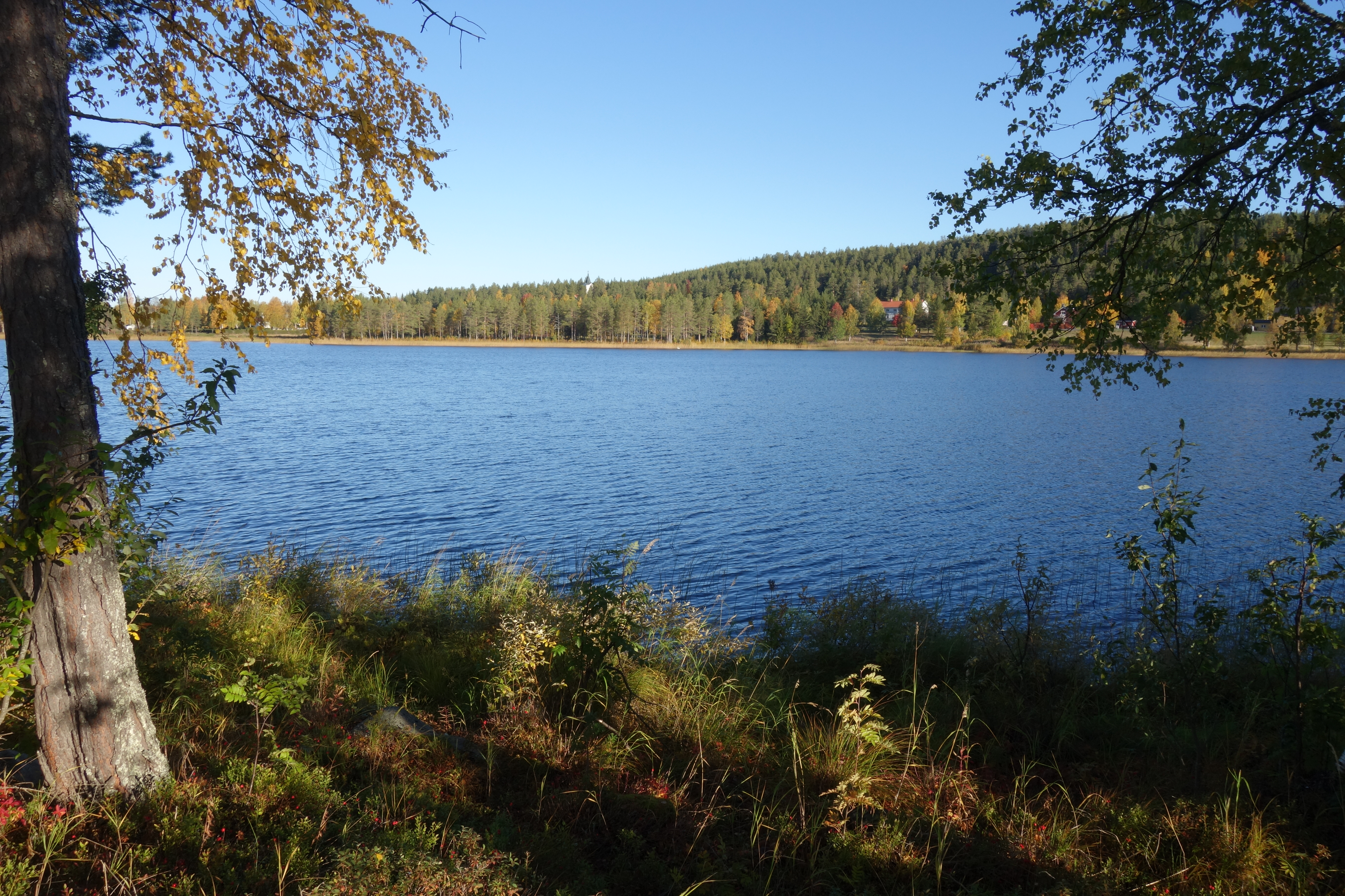 Lake Jörnsträsket viewed from the camping, with Österjörn church on the other side.